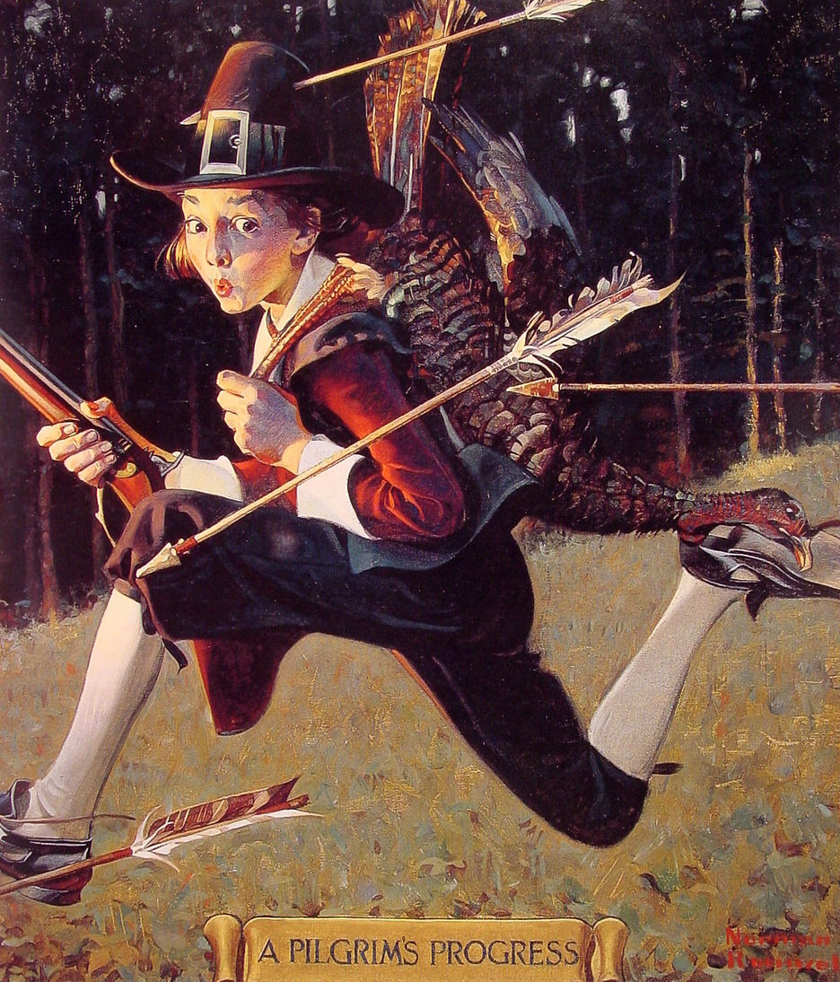 Cover of Life magazine, November 17, 1921